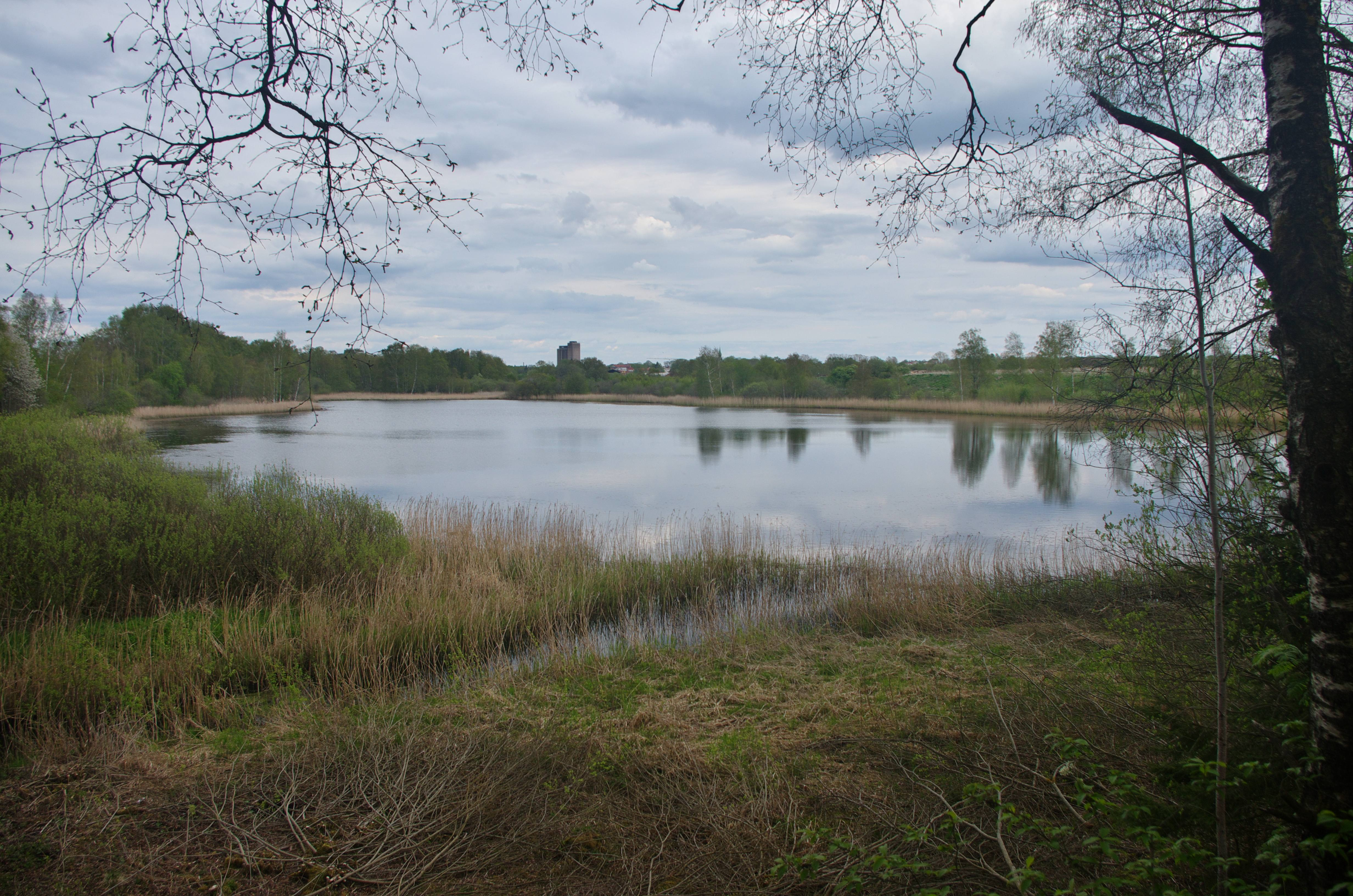 Hulesjön: Lake in Västergötland Sweden